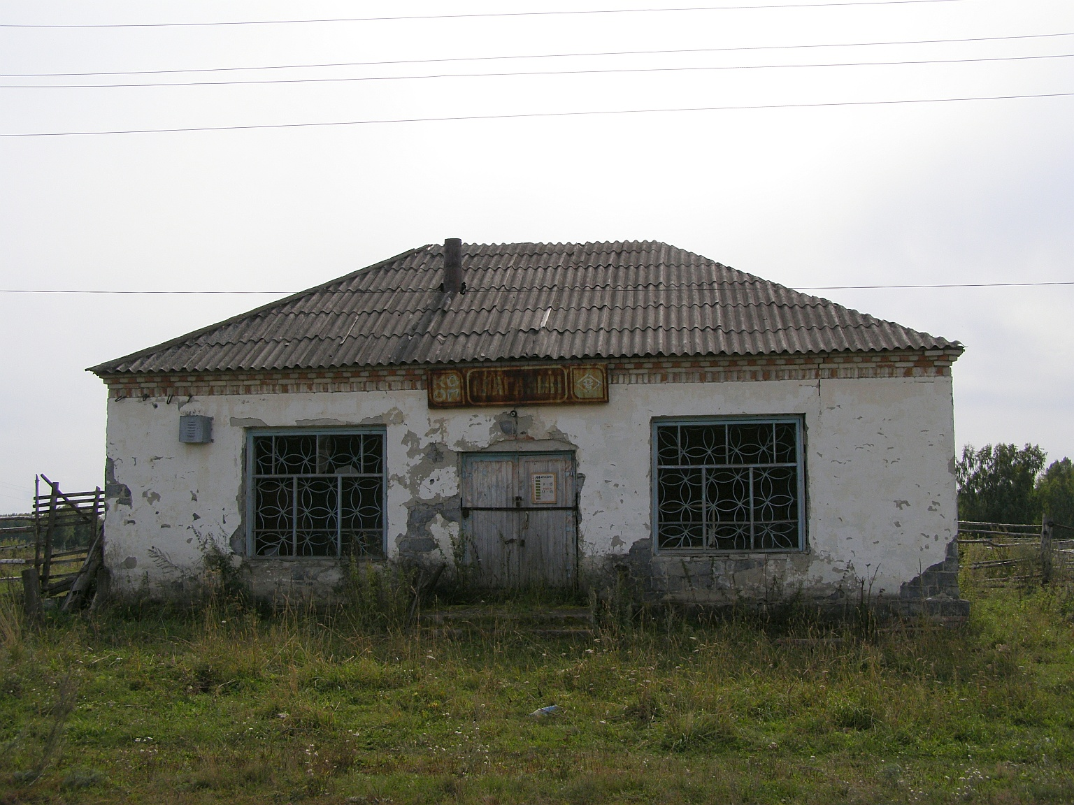 The only shop in Krasnosnamenka / Novosibirsk in 2008